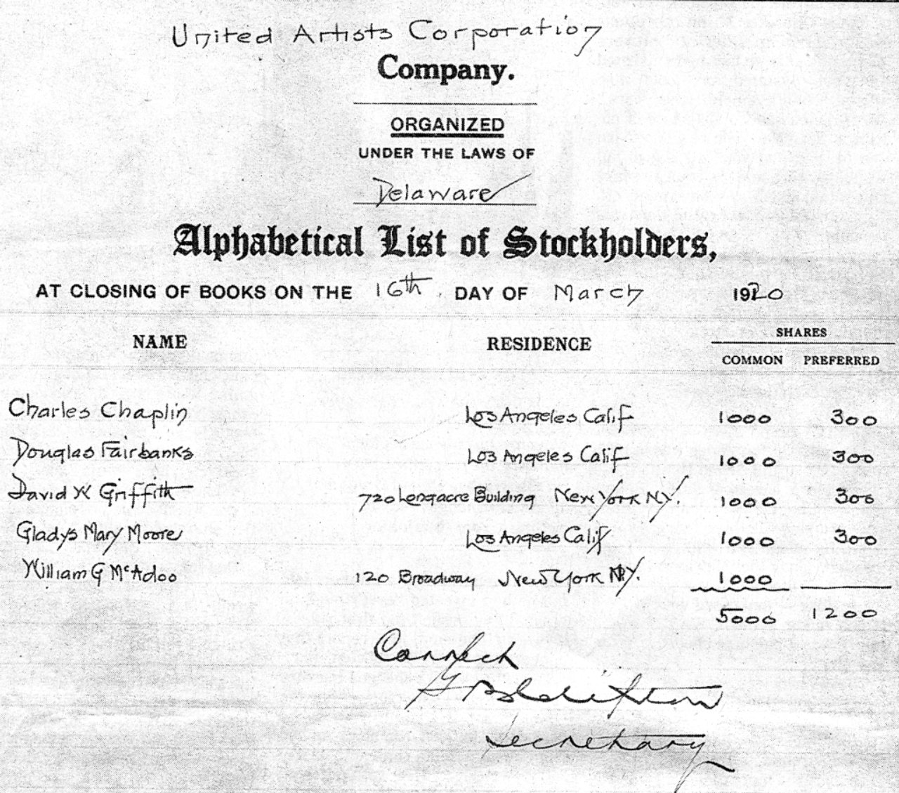 United Artists Corporation stockholders as at March 16, 1920. Note that Gladys Mary Moore is better known as Mary Pickford.